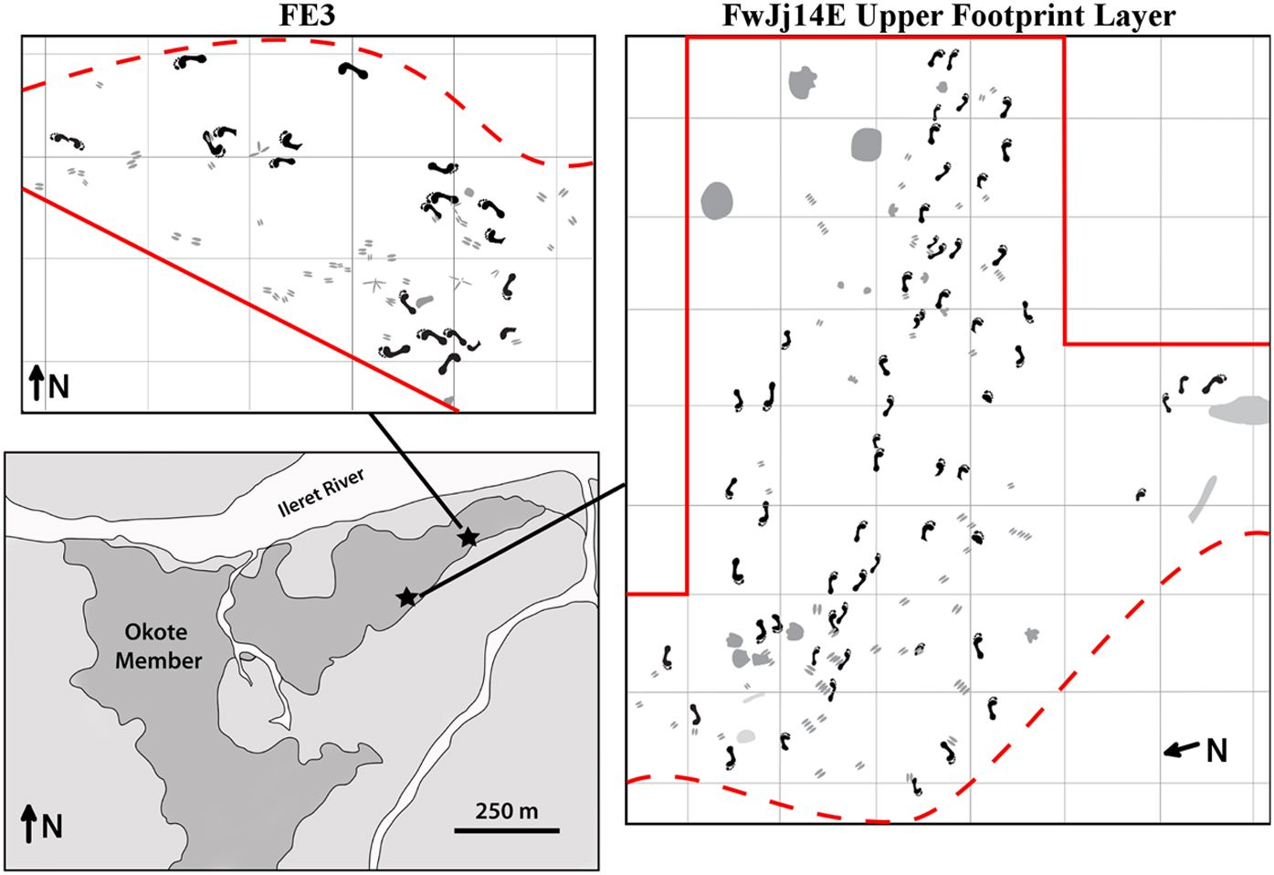 Homo erectus trackways. Schematic maps of excavated footprint surfaces at sites FE3 and FwJj14E. Map of the Ileret area (lower left) shows the locations of sites FE3 and FwJj14E, marked by black stars. Schematic maps of the excavated surfaces at FE3 (top left) and the FwJj14E Upper Footprint Layer (right) show the presence of multiple trackways across each of these surfaces. Print size analyses indicate that the groups of individuals represented at each site consist of predominantly males. Multiple trackways at FwJj14E show parallel directional movement and similar preservation states, suggesting that they could represent a group traveling together. Note that the schematic map of the FwJj14E surface has been rotated relative to North for visualization purposes. Solid red lines mark borders of the current excavations and the same geological layers that preserve footprints are known to extend beyond these borders. Dashed red lines indicate the finite edge of the preserved surface, as areas beyond these lines have been lost due to erosion.